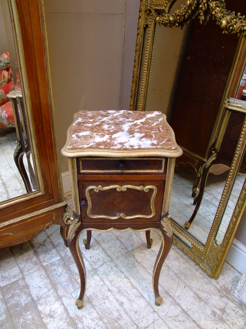 A table in the process of antiquing. Gold paint has been applied to the carved details to resemble gilding and highlight the detail. Distressing has been applied to the gold paint to tone down the colour and give an antique appearance. A chemical stripper is on the surface of the table top, dissolving the varnish; when the stripper and varnish residue is removed, the top will have a wood stain applied to it to give it a timeworn, antique appearance.